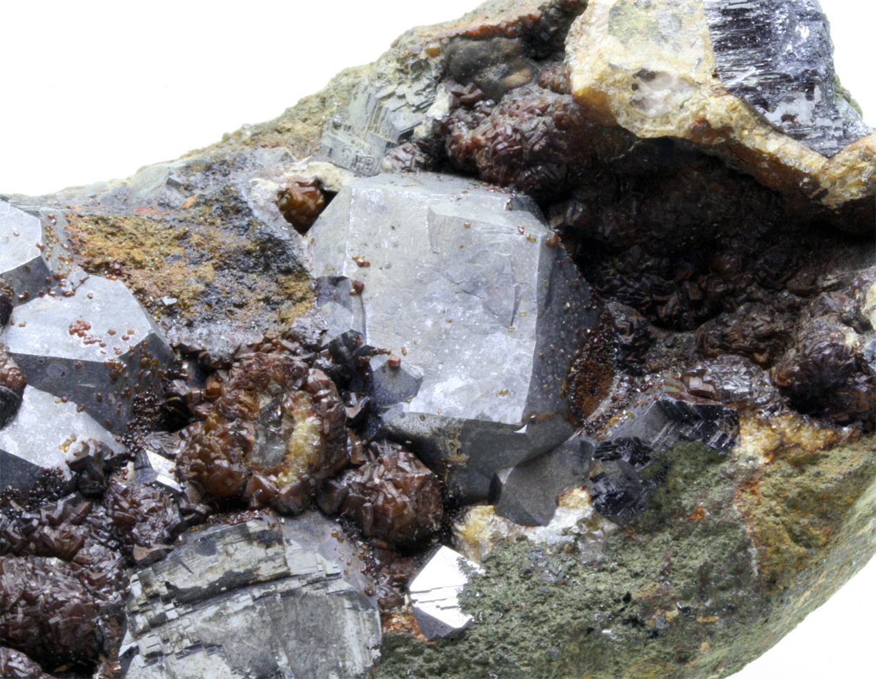 Galena crystals with siderite and greenalite from San Valentín open pit, Cartagena, Spain.